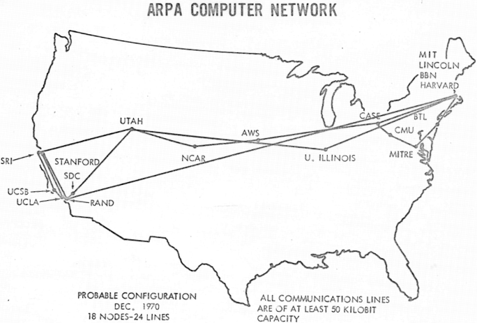 The map of ARPANET in December 1970, it contains 18 Nodes and 24 Lines.